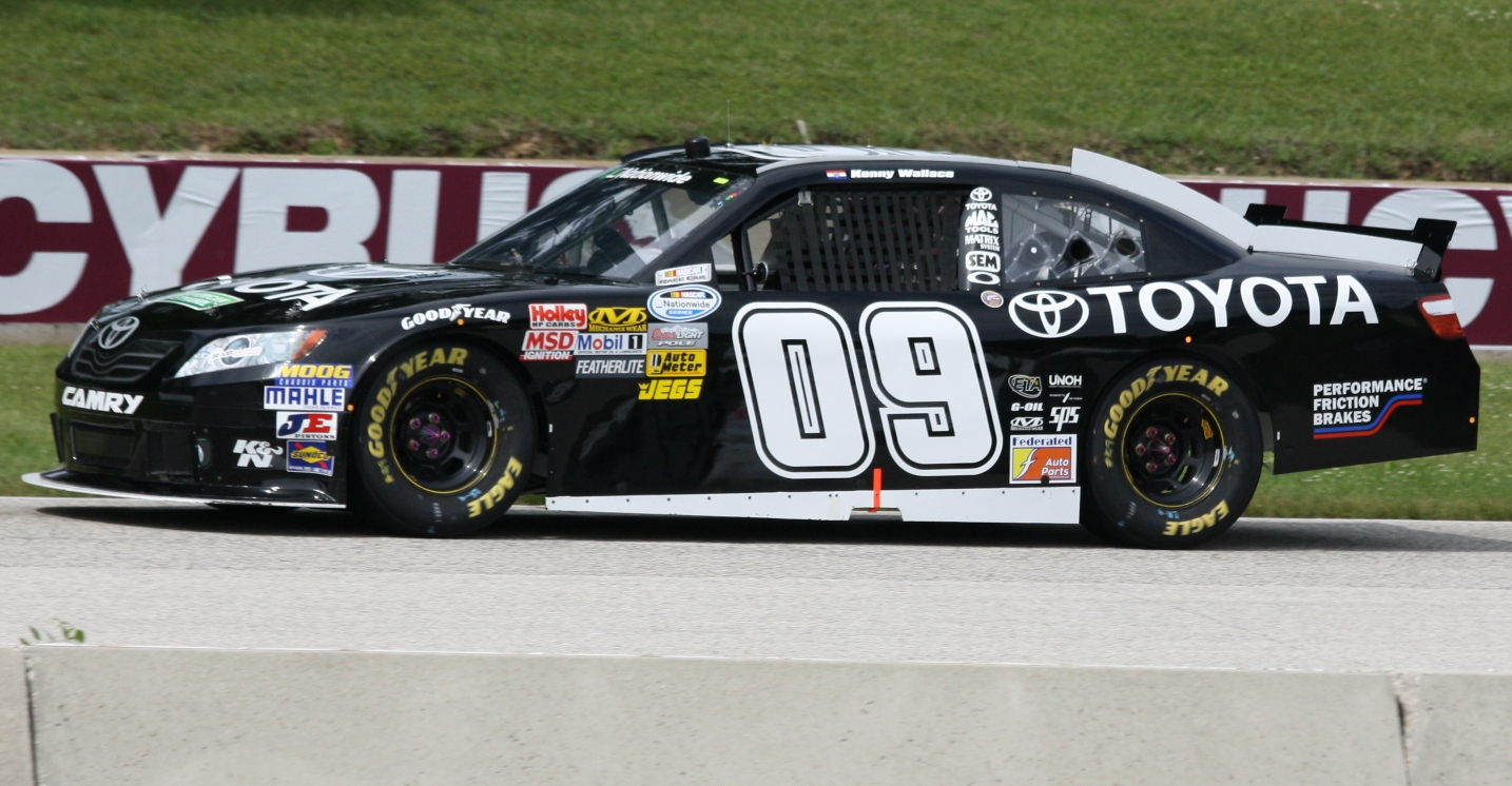 NASCAR driver Kenny Wallace (NASCAR) racing his stock car at Road America at the 2011 Bucyros 200 Nationwide Series race.